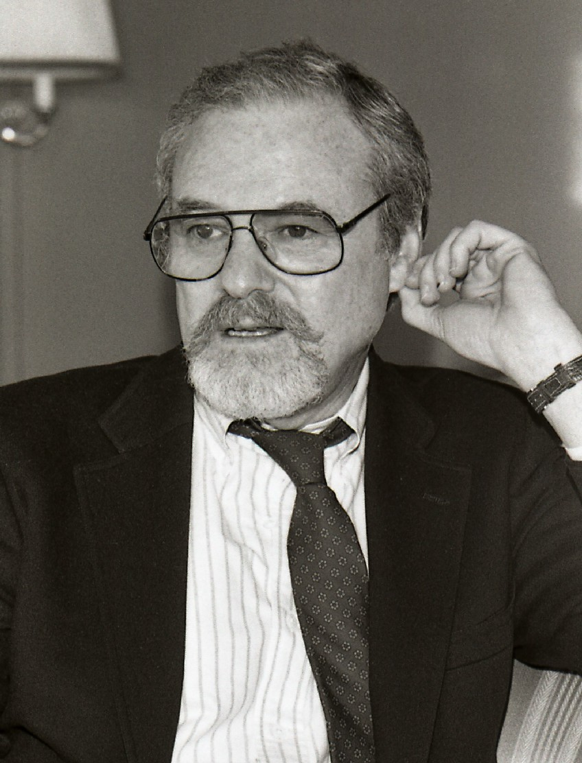 Alan J. Pakula in Sweden talking about his movie "Presumed Innocent"